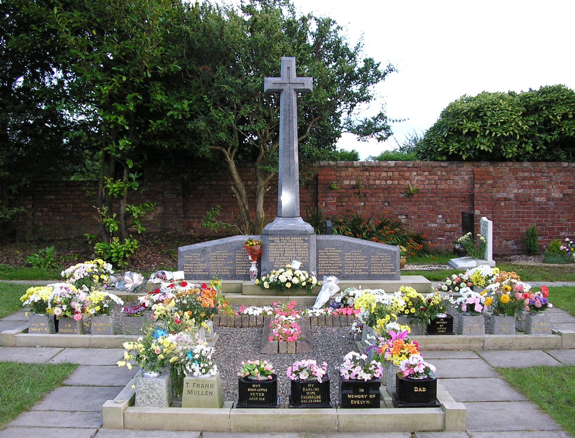 This photograph was taken shortly after the 60th anniversary of the Freckleton Air Disaster when an American Liberator bomber crashed into the village during a violent thunder storm.